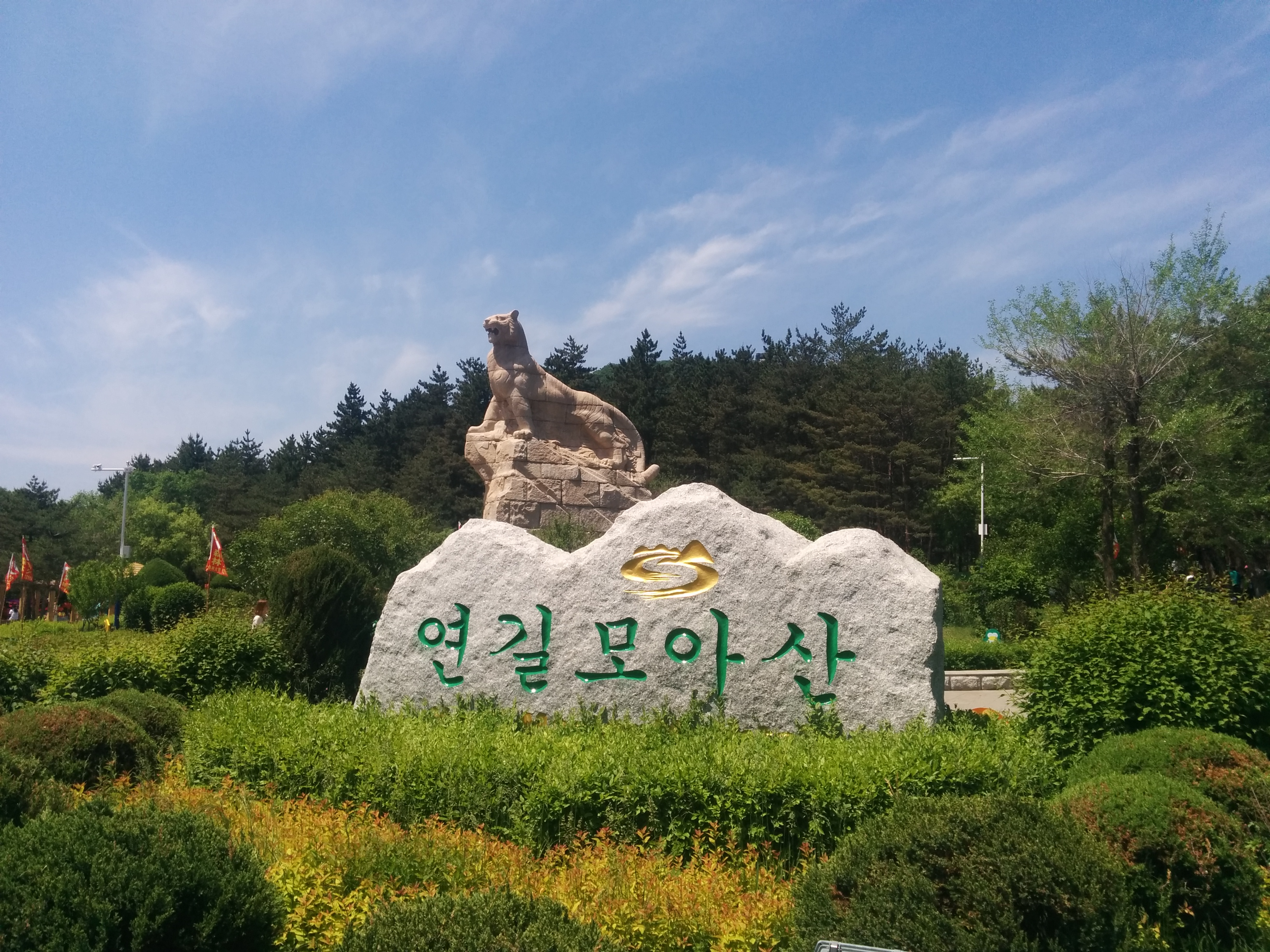 Yanji Maoer Mountain National Forest Park